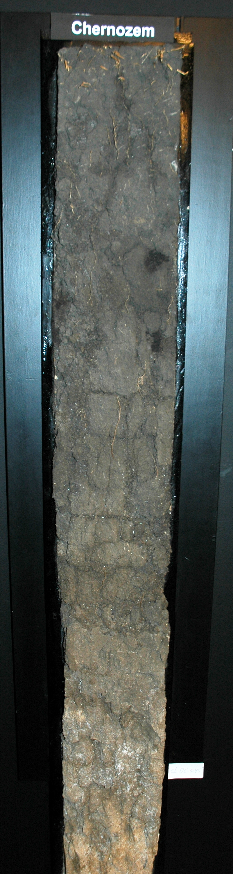 Soil profile of a Chernozem